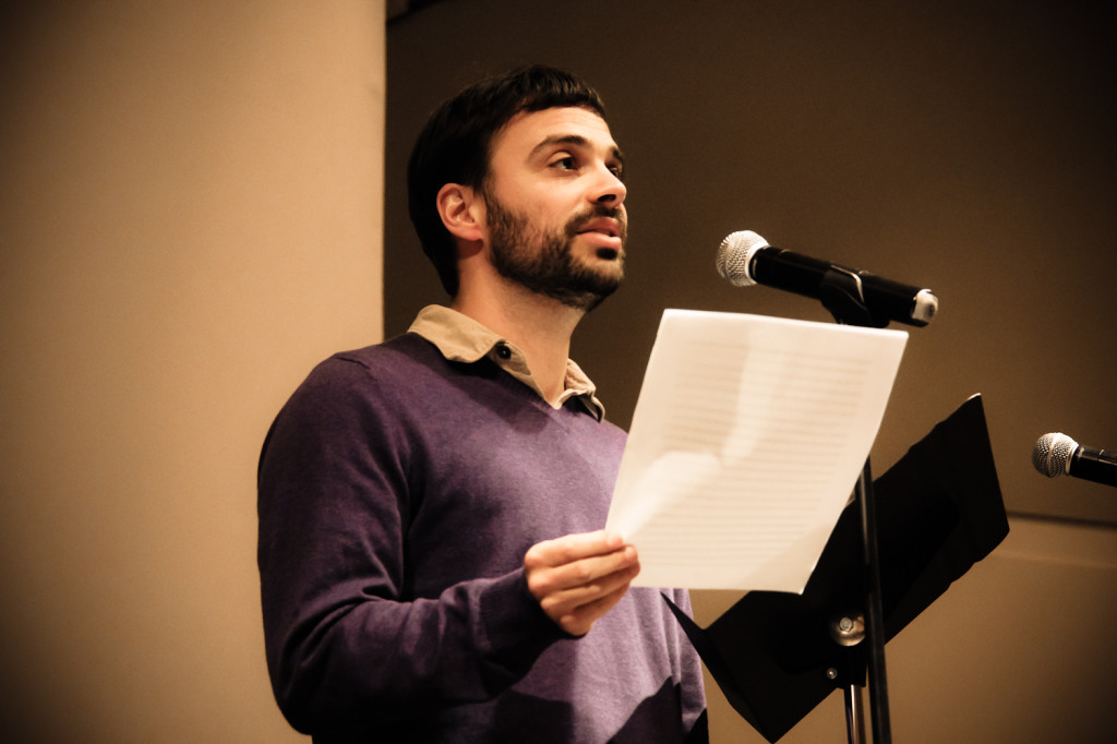 Michael David Lukas Giving a Reading